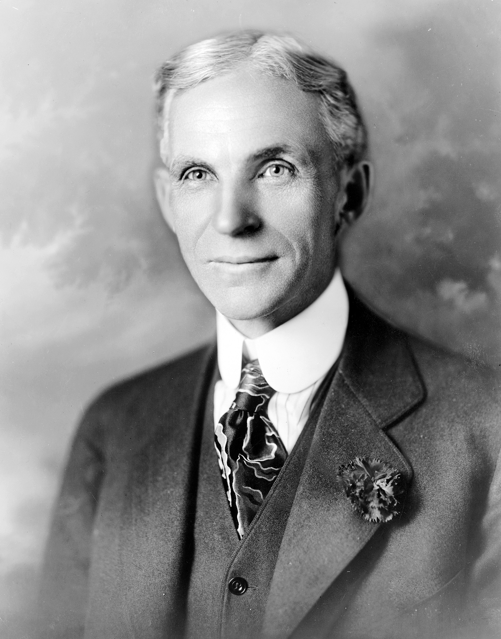 Portrait of Henry Ford (ca. 1919)